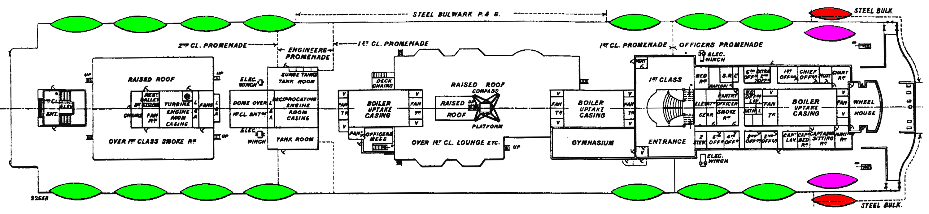 Plan of the Boat Deck of the RMS Titanic showing location of lifeboats